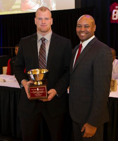 Jack Huston Award recipient, 2012. Trent Murphy.